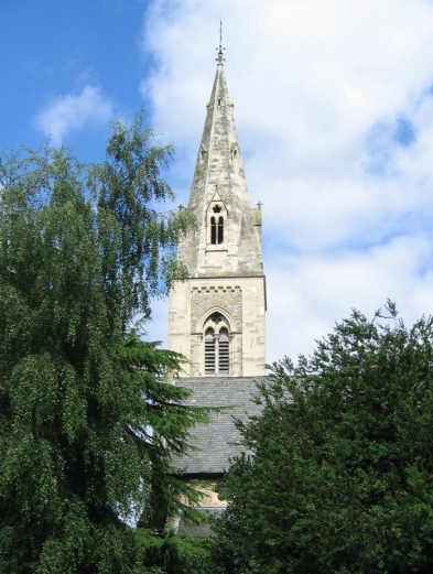 St Dunstans Church, Cheam. A lovely steeple that stands out within these densely populated suburban surroundings. Sits almost opposite Cheam Whitehall.